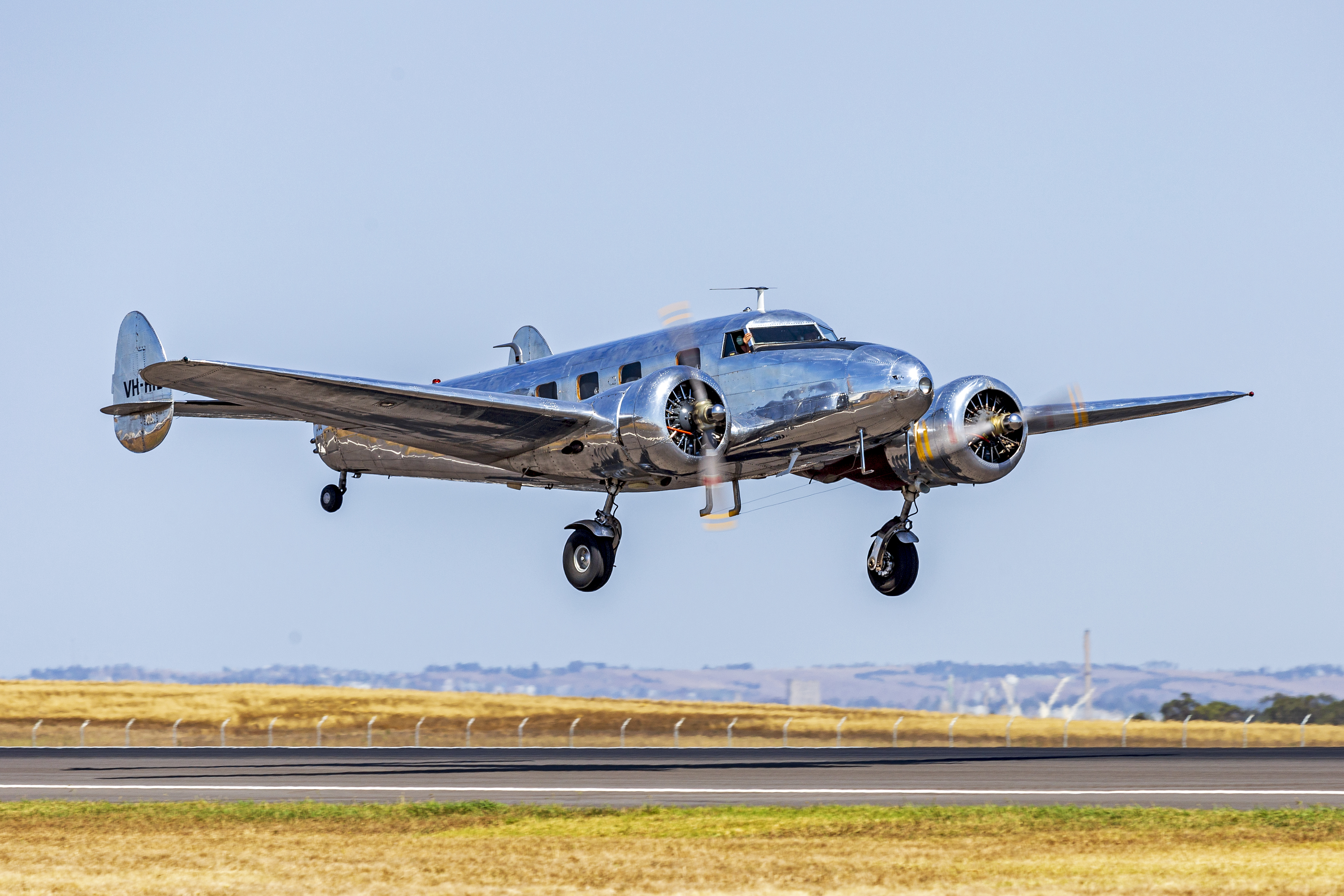 Lockheed 12A Junior Electra (VH-HID) taking off at the 2019 Australian International Airshow